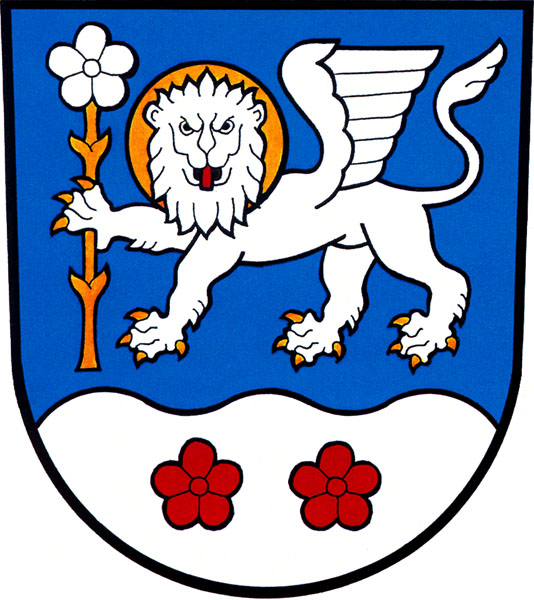 Municipal coat of arms of Střítež village, Třebíč District, Czech Republic.